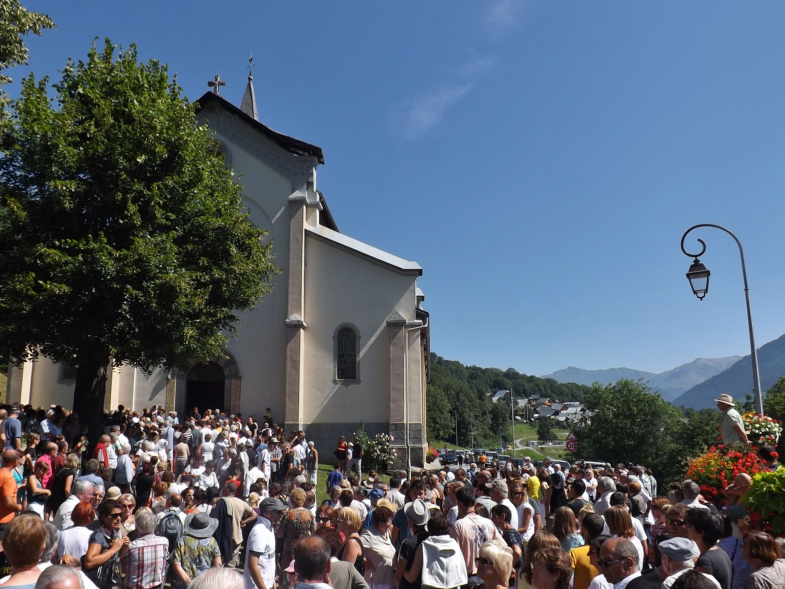 Crowded main street of Saint-Colomban-des-Villards (Savoie, France), during the Vallée des Villards great traditional celebration of 2013.